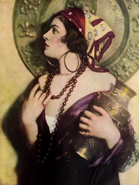 Colorized photograph of actress Elaine Hammerstein published on page 21 of the September 1919 Shadowland (credit on page 79).